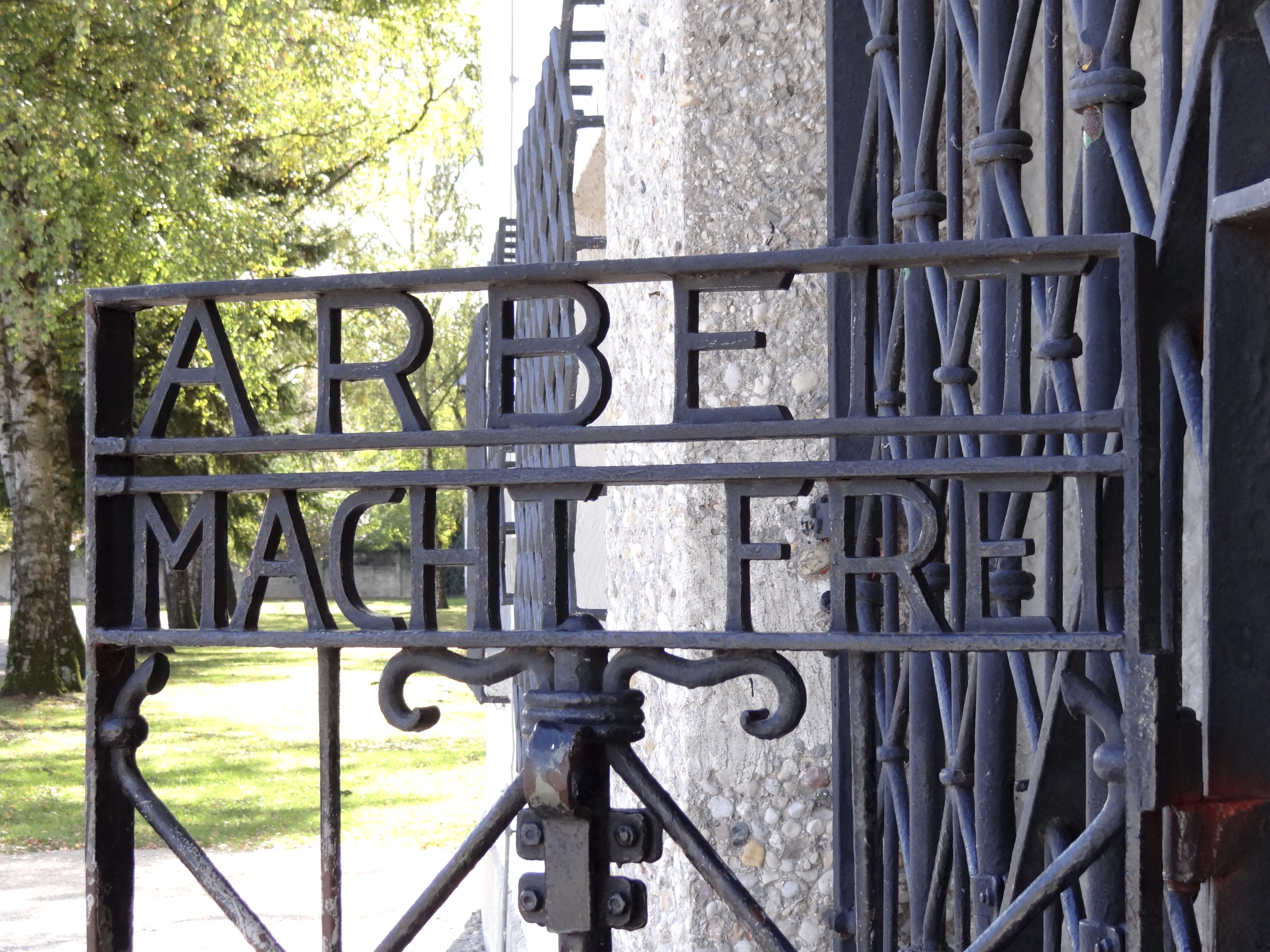 Arbeit Macht Frei - Work Sets You Free - Sign at Gate to Dachau Concentration Camp Site - Dachau - Bavaria - Germany